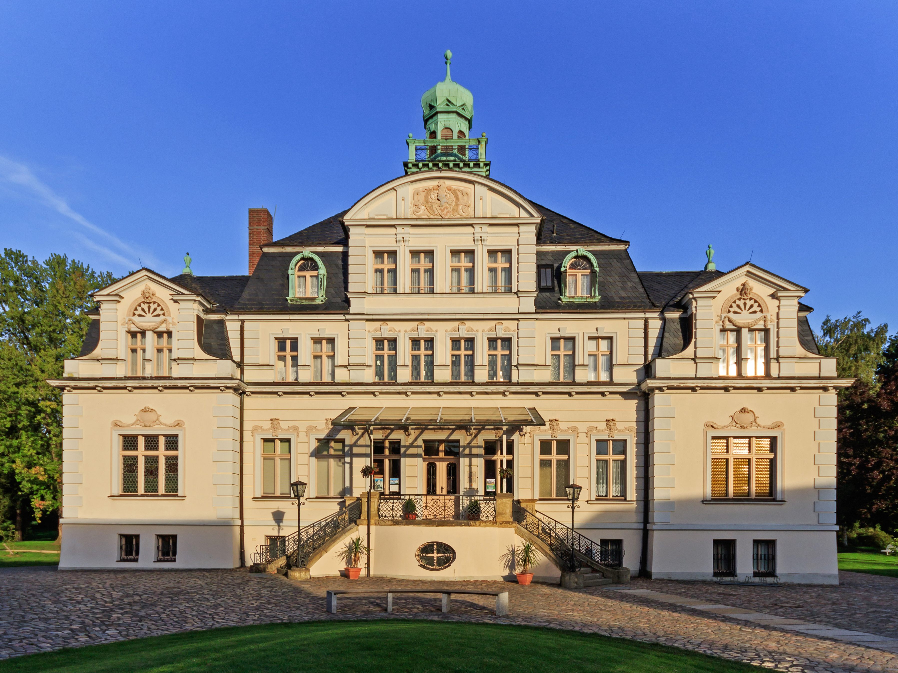 The manor in Uebigau (EE), Brandenburg, Germany